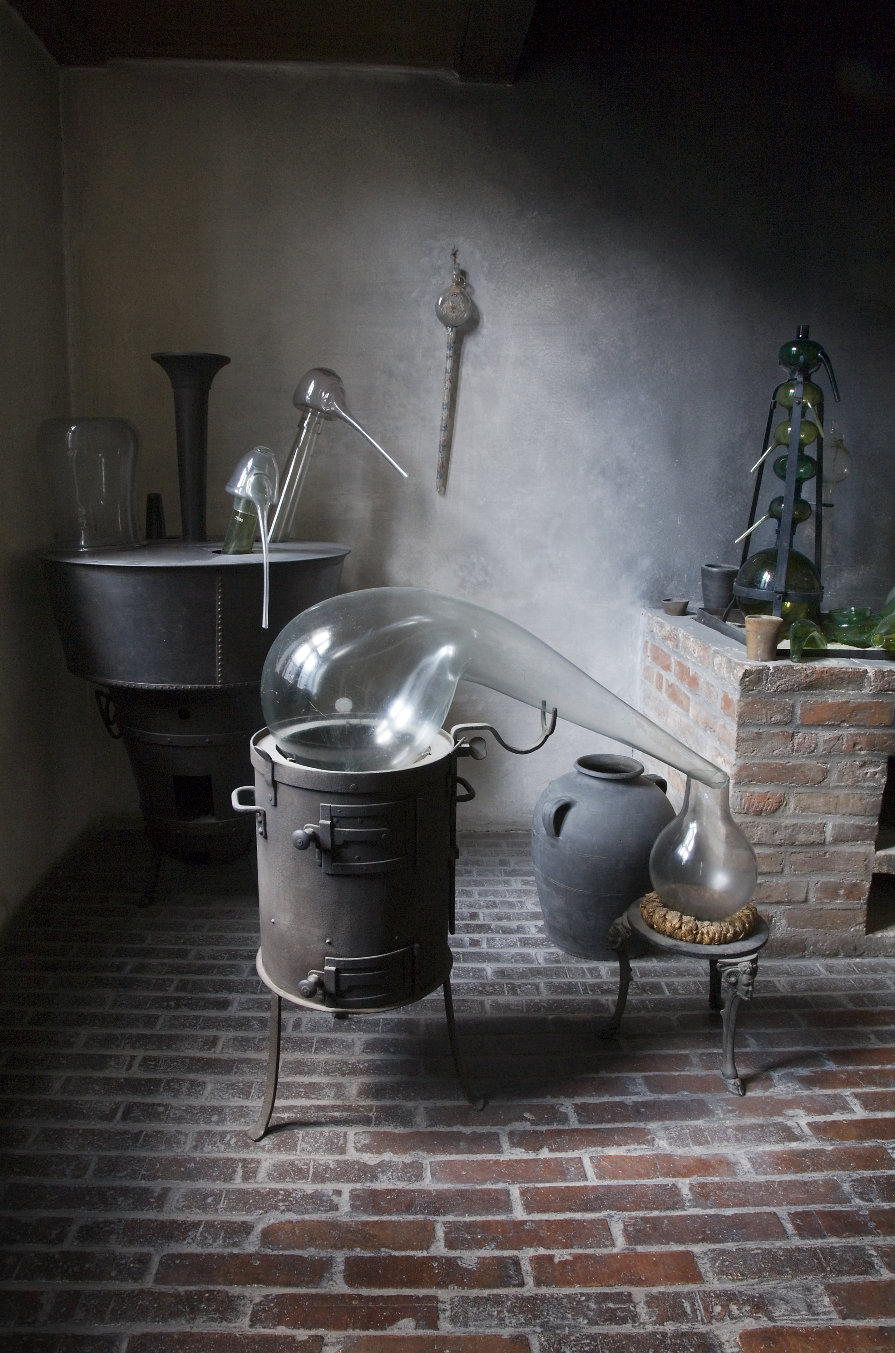 Glass containers, experimental magnifiers and chemical or alchemy paraphernalia in the Lavoisier Lab 1775